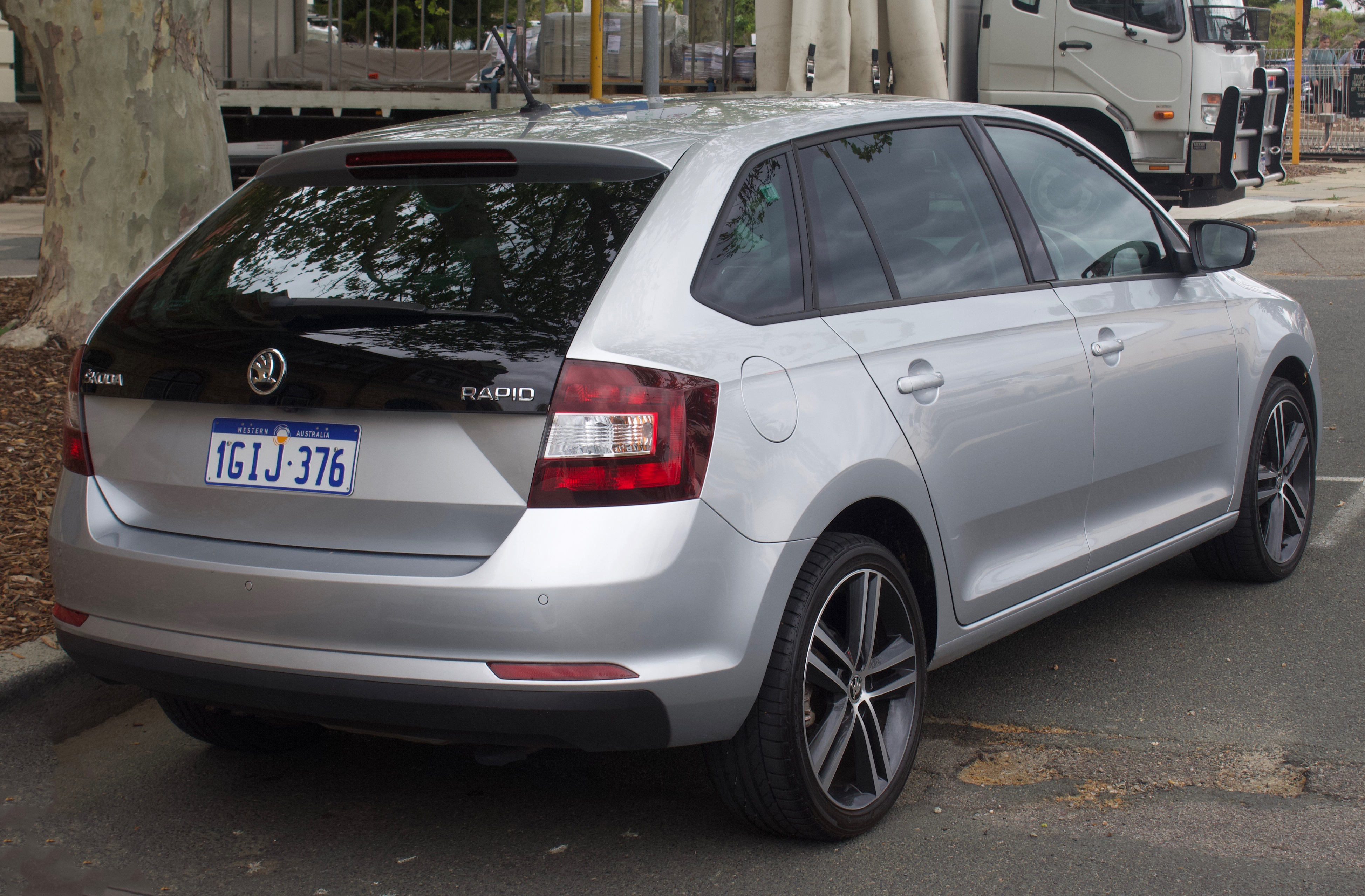 2017 Skoda Rapid (NH MY17) Spaceback hatchback. Can't really determine the variant, so if anyone knows, feel free to correct this file. Photographed in Fremantle, Western Australia, Australia.